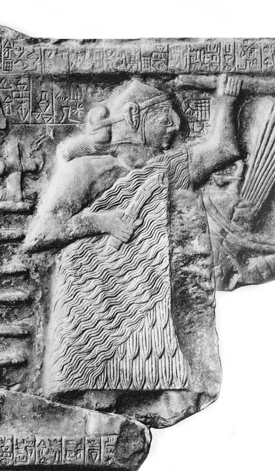 Eannatum composite